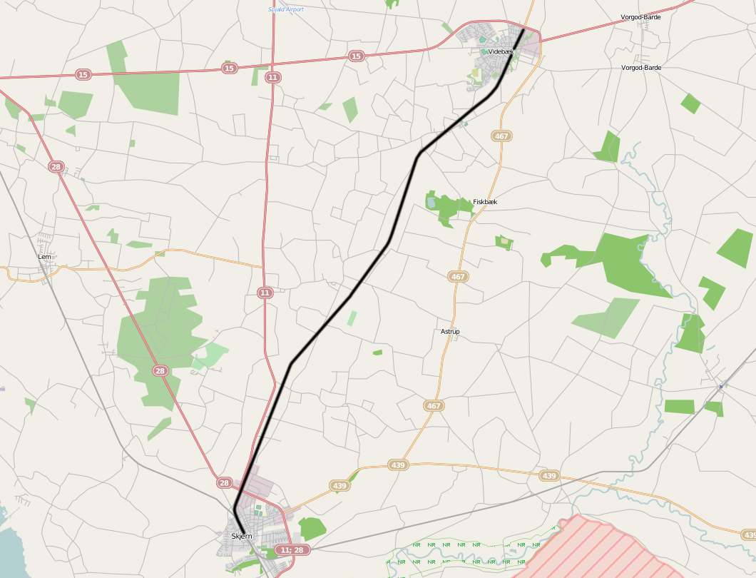 Railway line Skjern - Videbæk